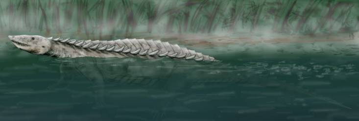 Crop of file in filename